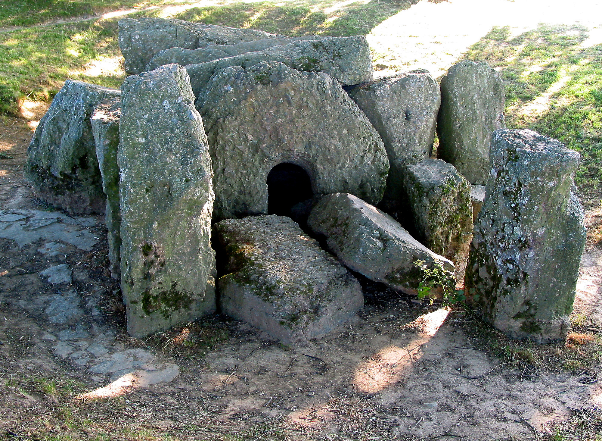 Wéris, the dolmen named dolmen Nord or Wéris I.